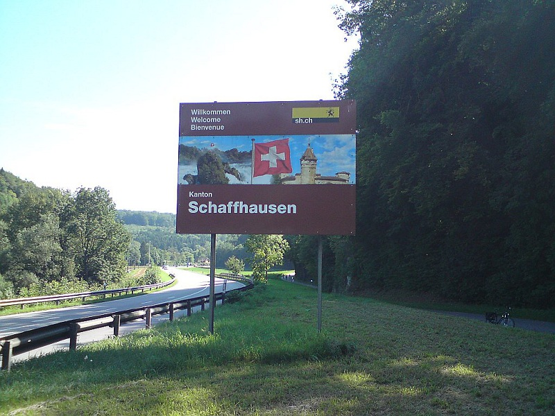 Welcome - Kanton Schaffhausen.